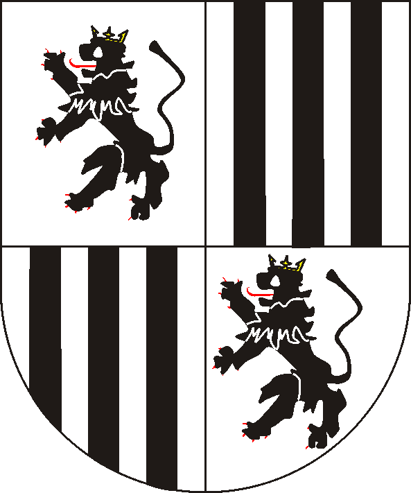 coats of arms of the bourgraviat of Kirchberg